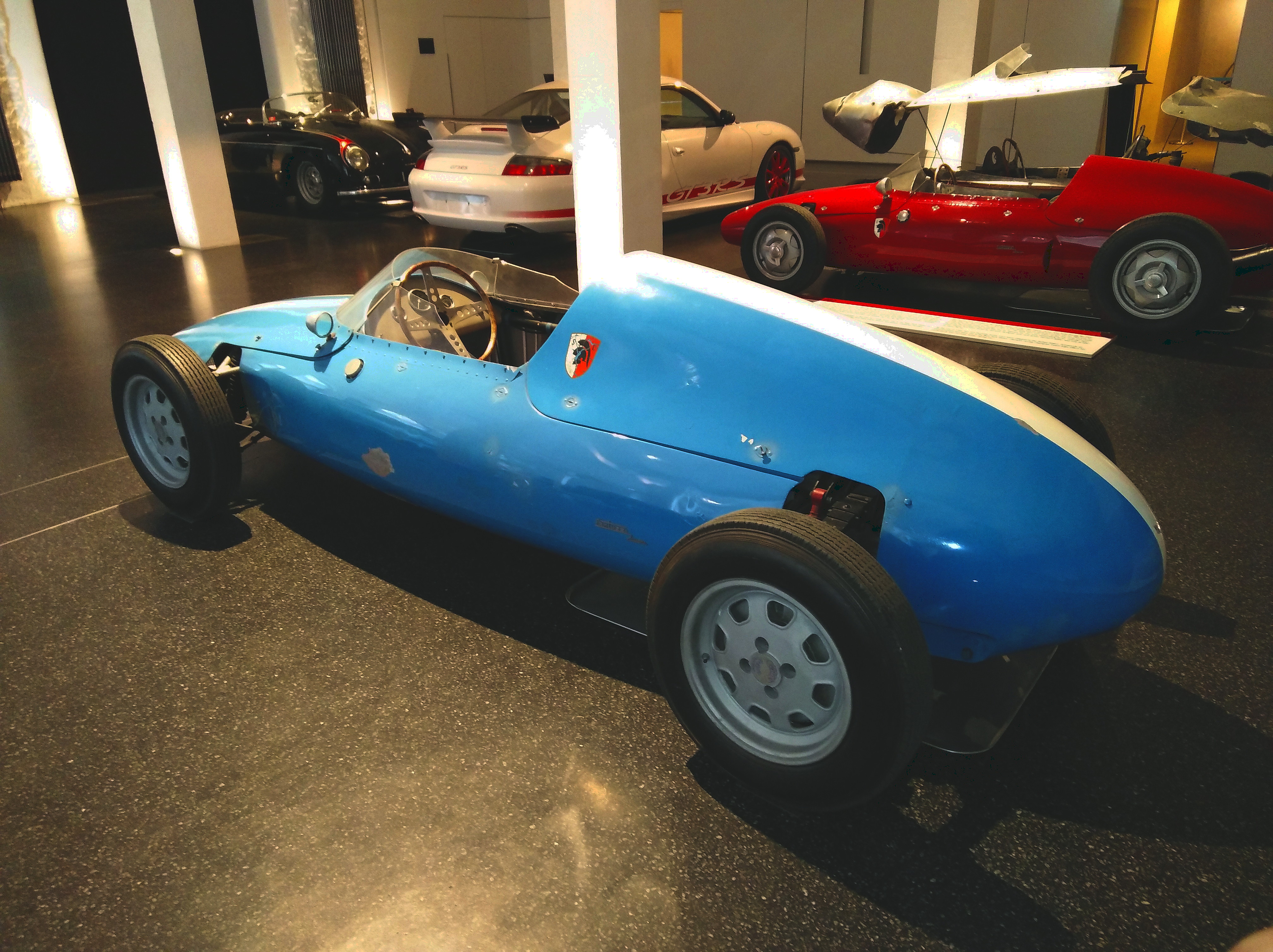 Isis Formula Junior Racing Car, Chassis No. 002. Constructed by De Tomaso, built by Fantuzzi. Exhibited in Prototypenmuseum, Hamburg, Germany.